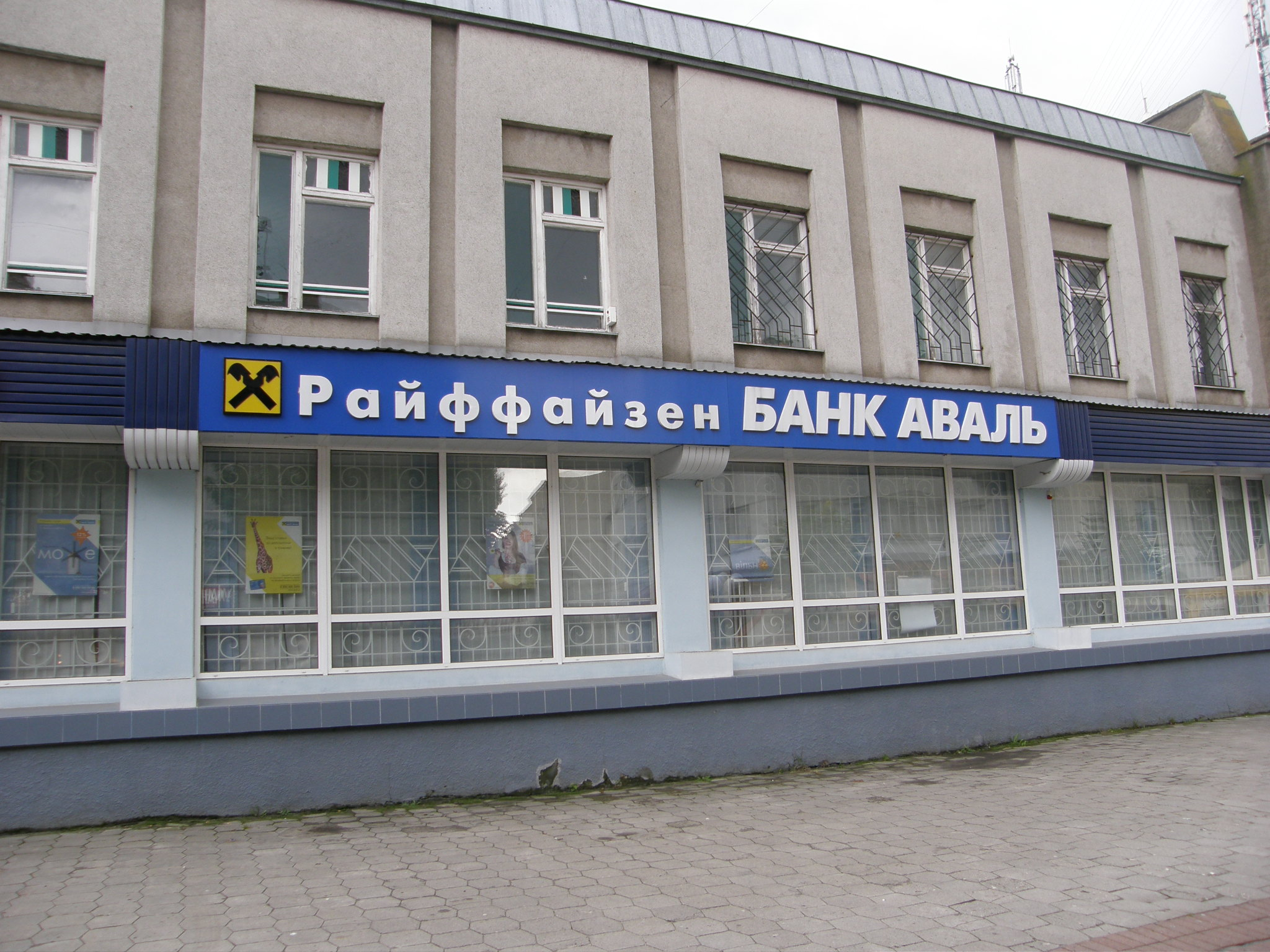 Branch of Raiffeisen Bank in Lutsk, Ukraine